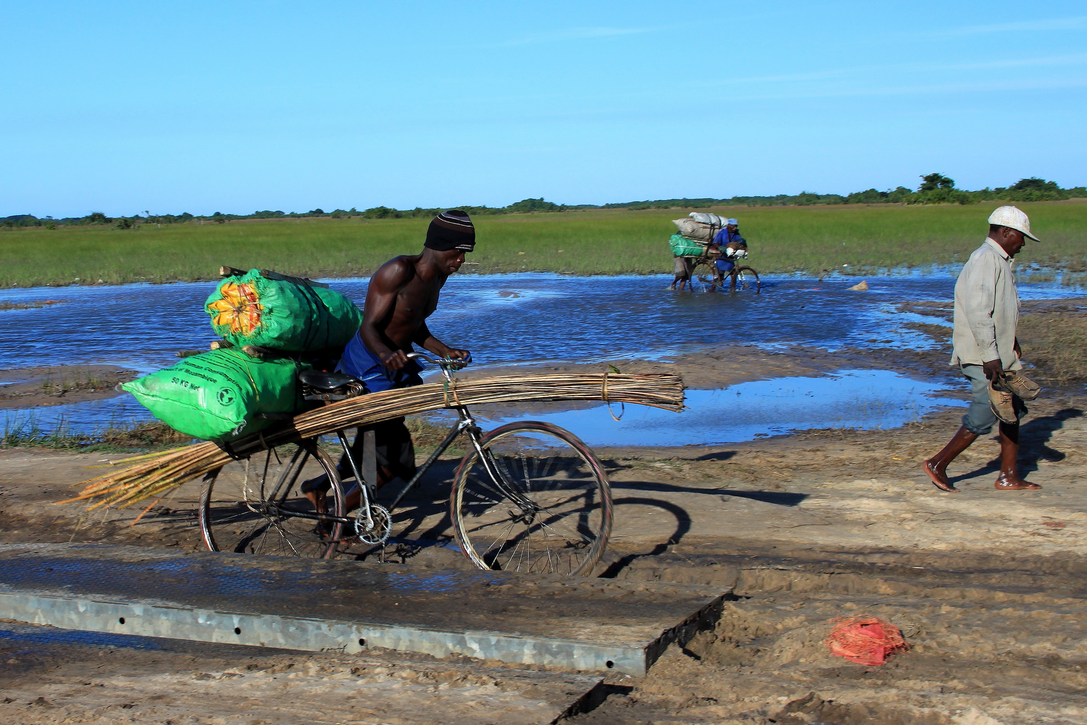 Men from a village in rural Mozambique cross a flooded dirt road to deliver their charcoal to the market for sale